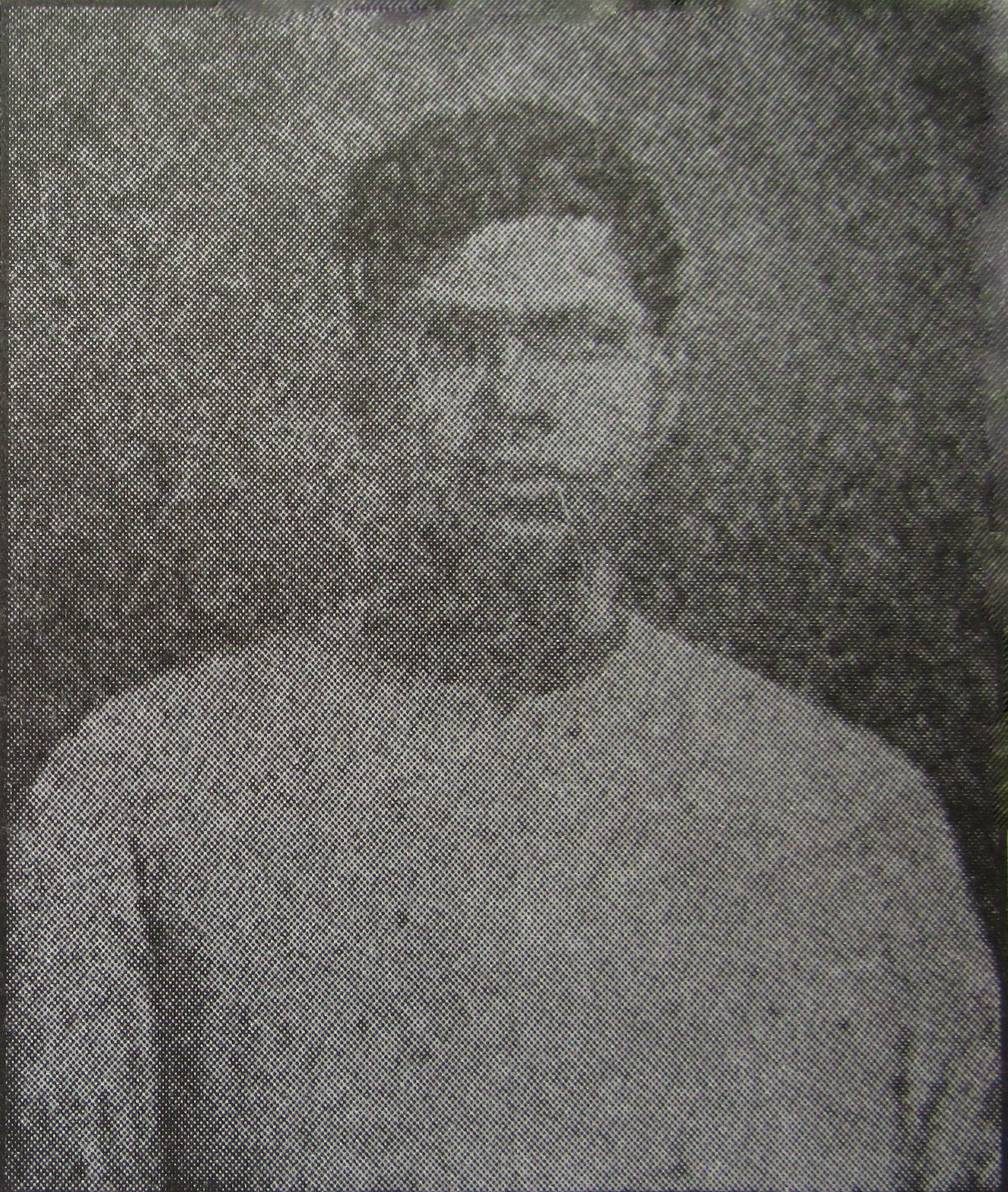 Ramkrishna Roy